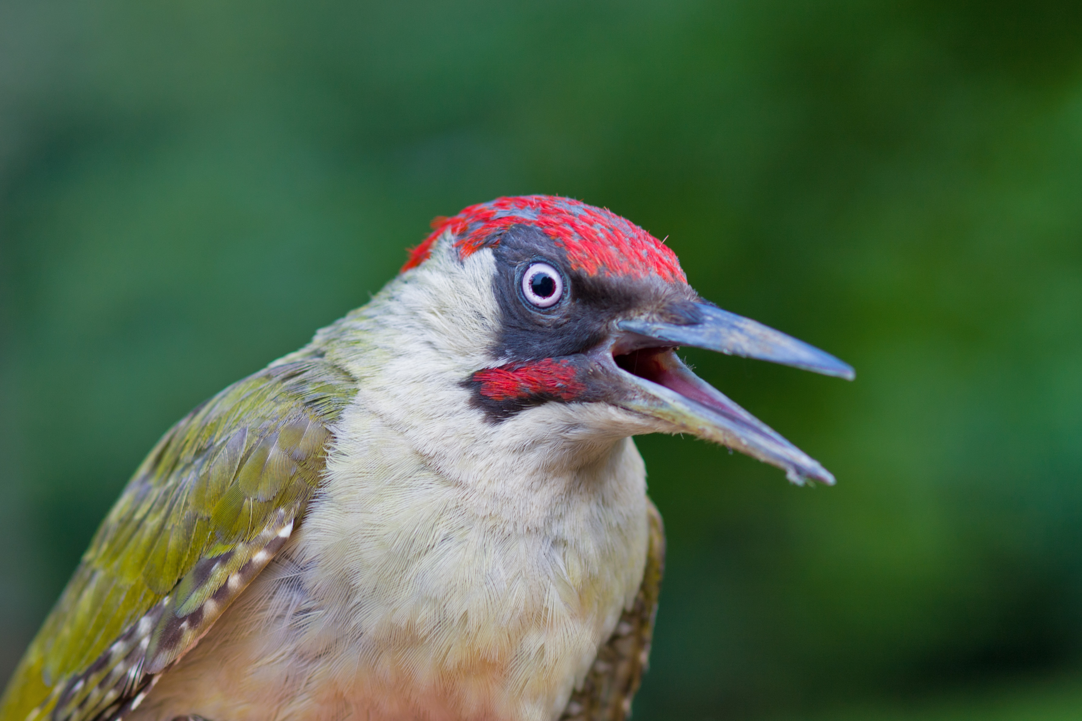 European Green Woodpecker